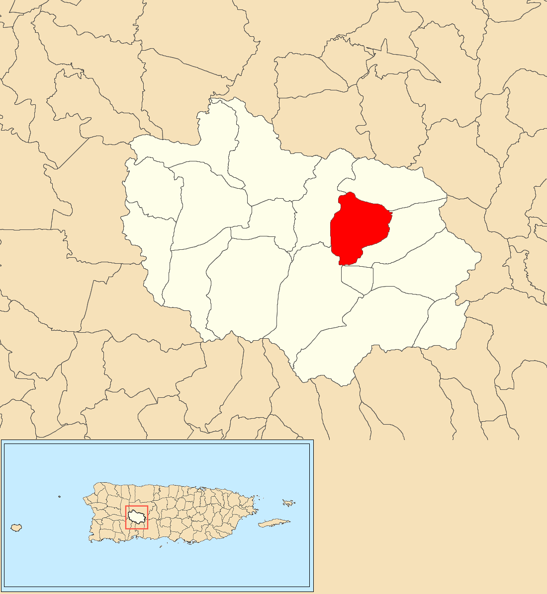 Juan González, Adjuntas, Puerto Rico locator map